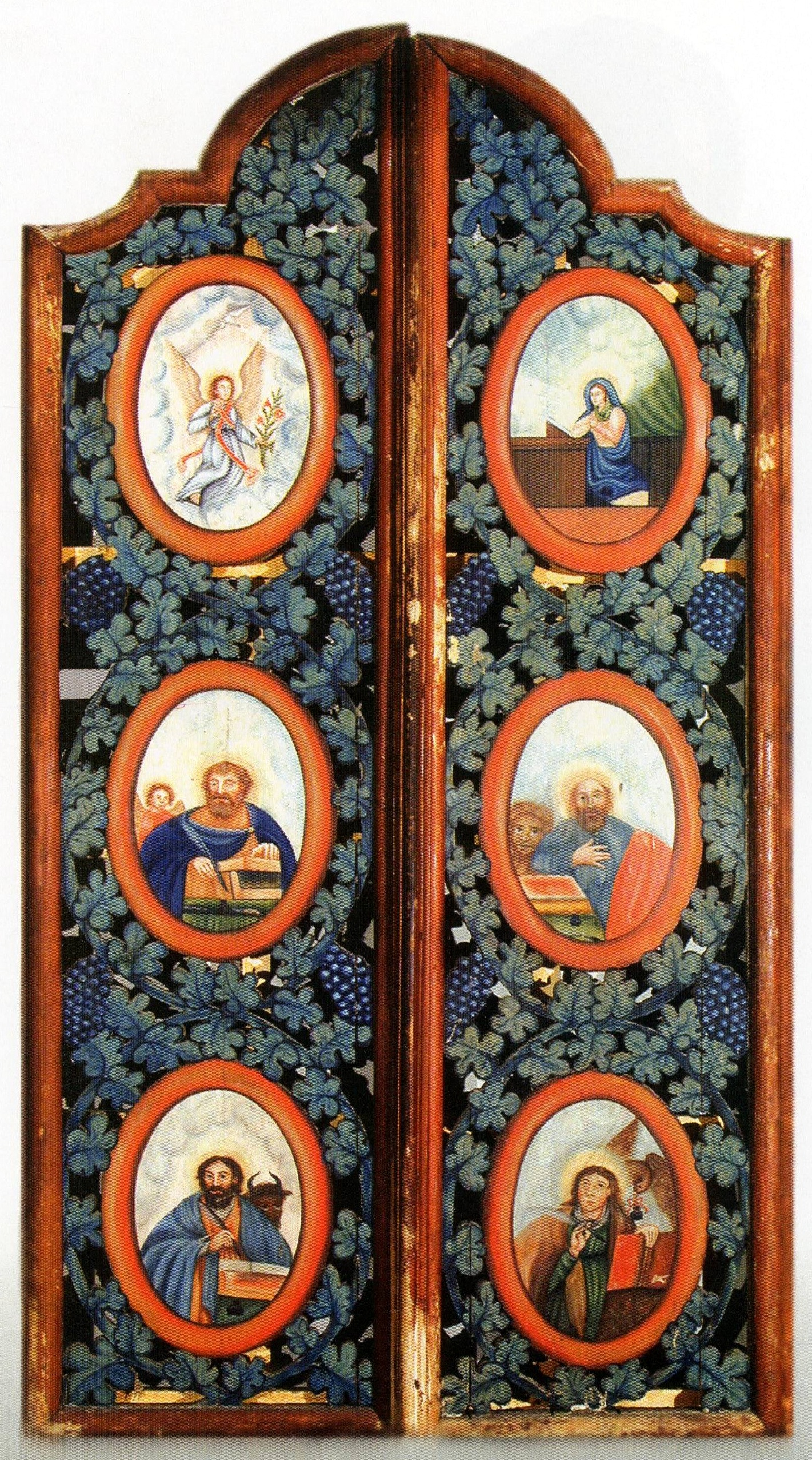 THE HOLY GATES. Early 19th с. Wood, carving, multi-coloured. St. Paraskieva's Church, Opal, Ivanava district, Brest region.